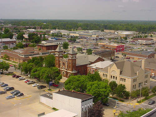 Downtown TerreHaute, looking Southwest, taken from the roof of the Sycamore Building in July '06. --Simon Dodd 00:21, 28 July 2006 (UTC)